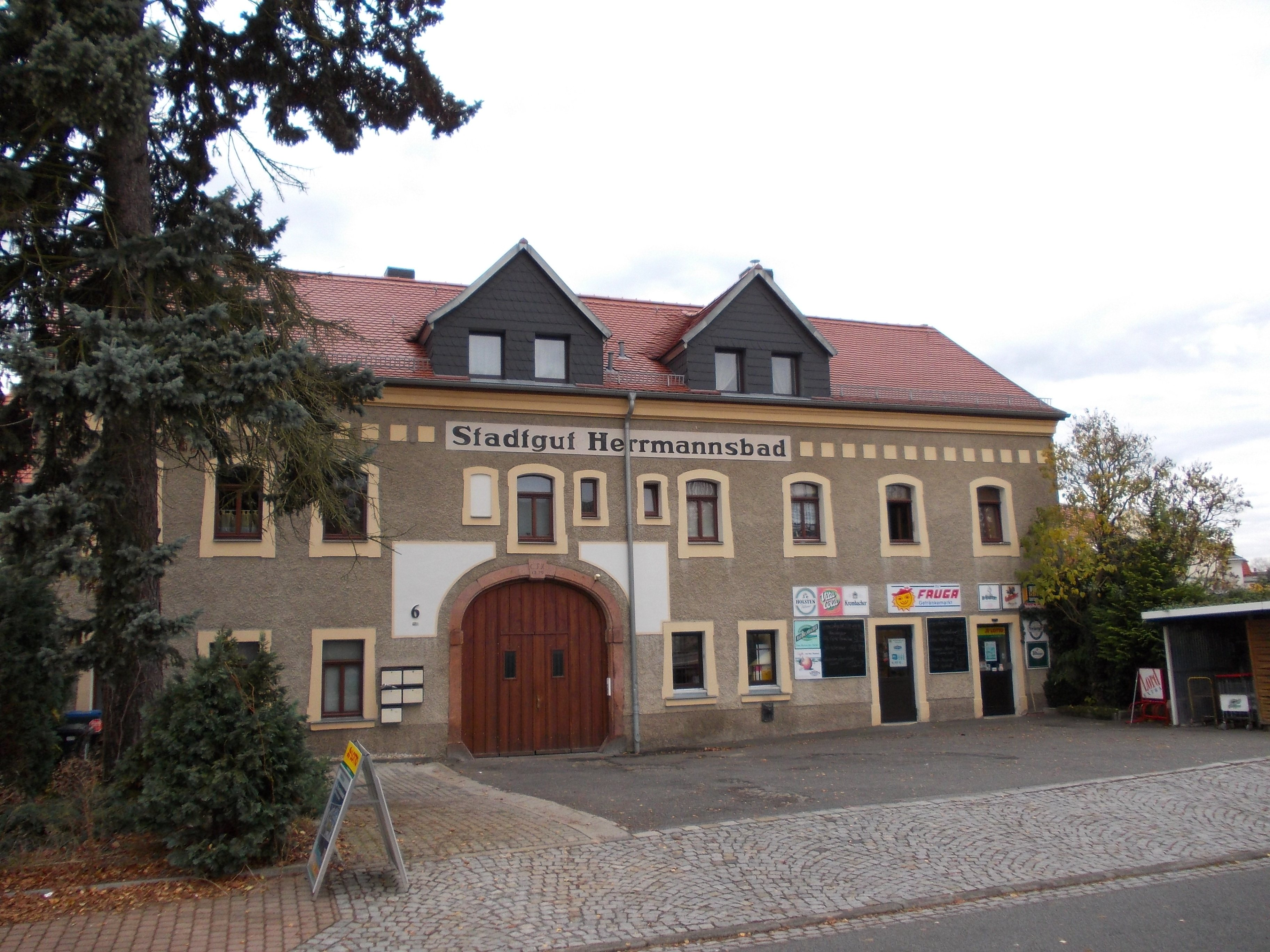 Hermannsbad town estate in Bad Lausick (Leipzig district, Saxony)